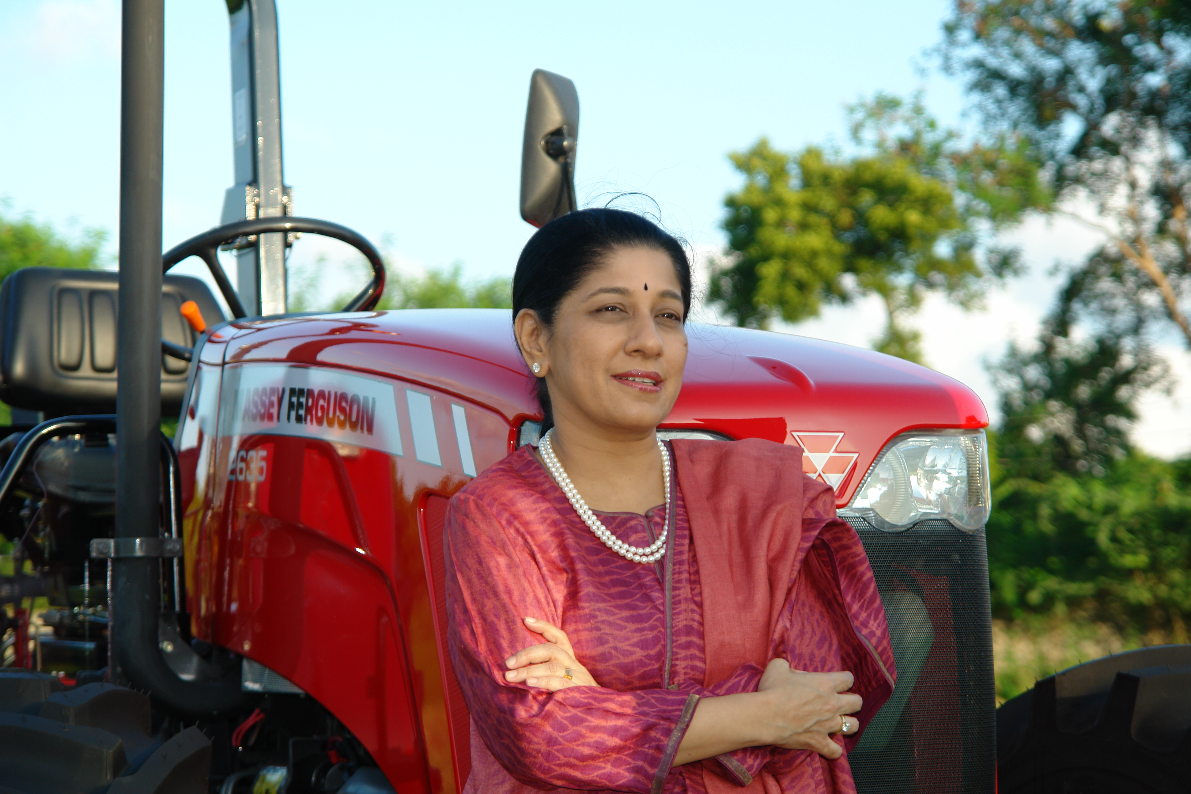 The official picture of Mallika Srinivasan - Chairman & CEO TAFE